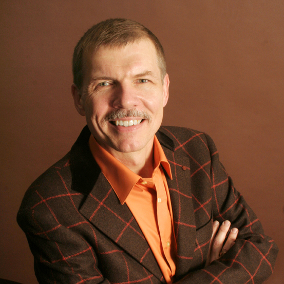 Kenneth Fuchs, photo by Peter Schaaf